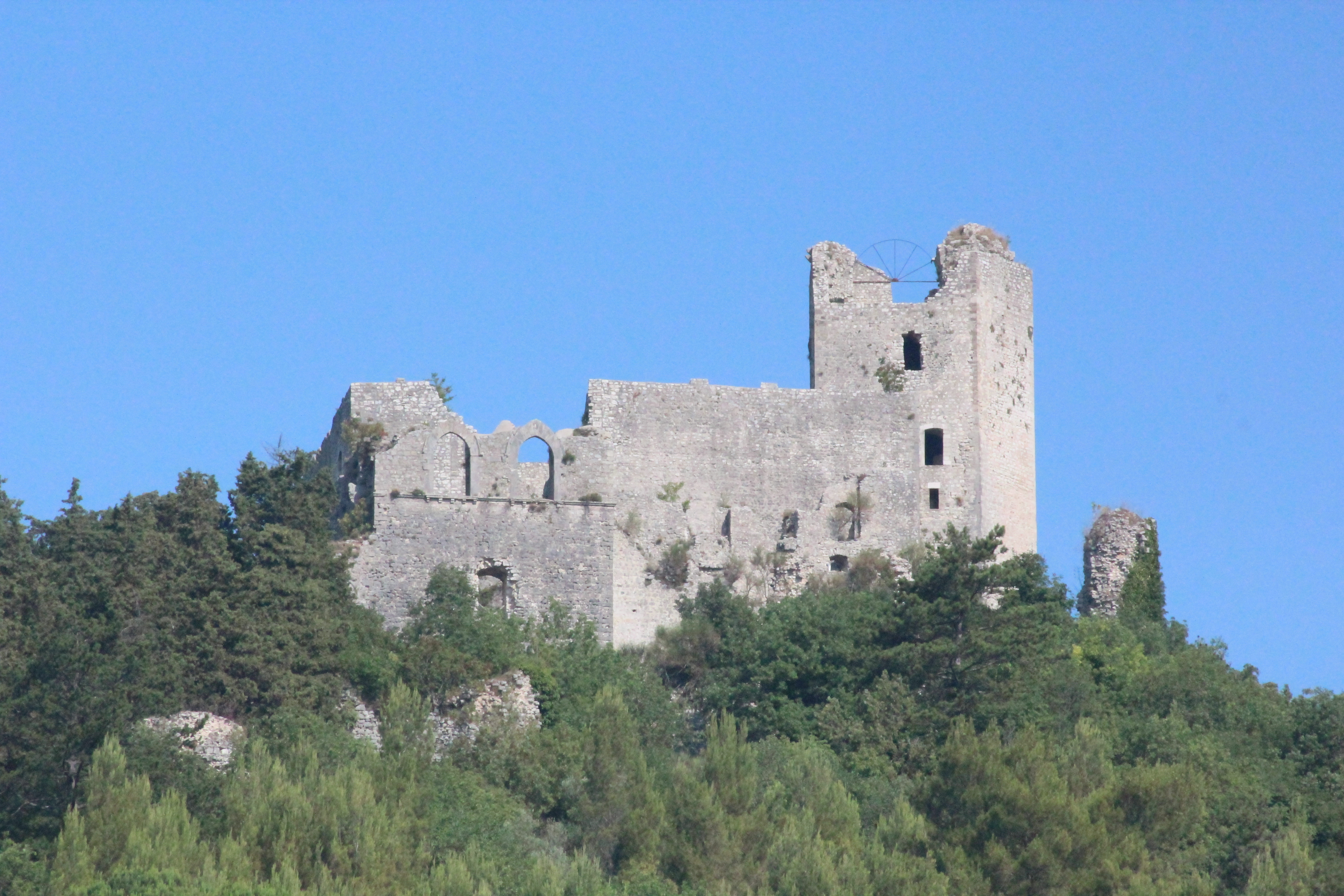 Castle Rocca Albornoz (Rocca di Piediluco, Castle di Piediluco, Castello de Luco) on Monte Luco, Piediluco, hamlet of Terni, Province of Terni, Umbria, Italy